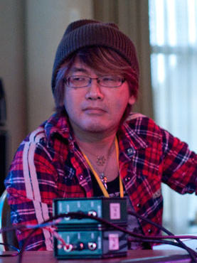 Crop of a photo of Kiroki Kikuta at MAGFest 9 in 2011